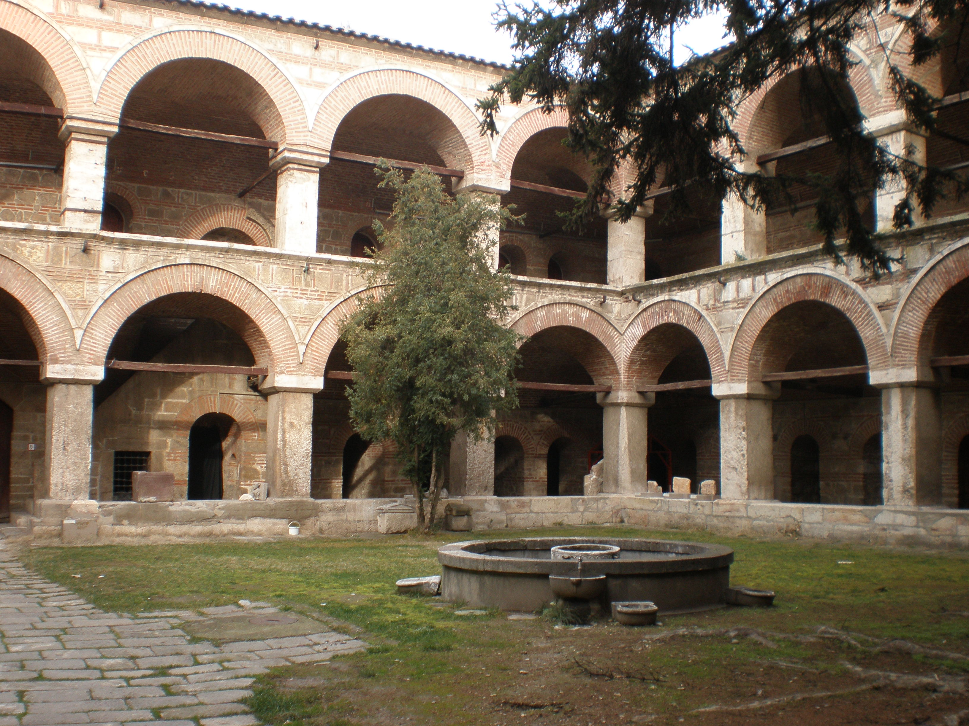 Interior of the Kurshumli An in Skopje, Macedonia